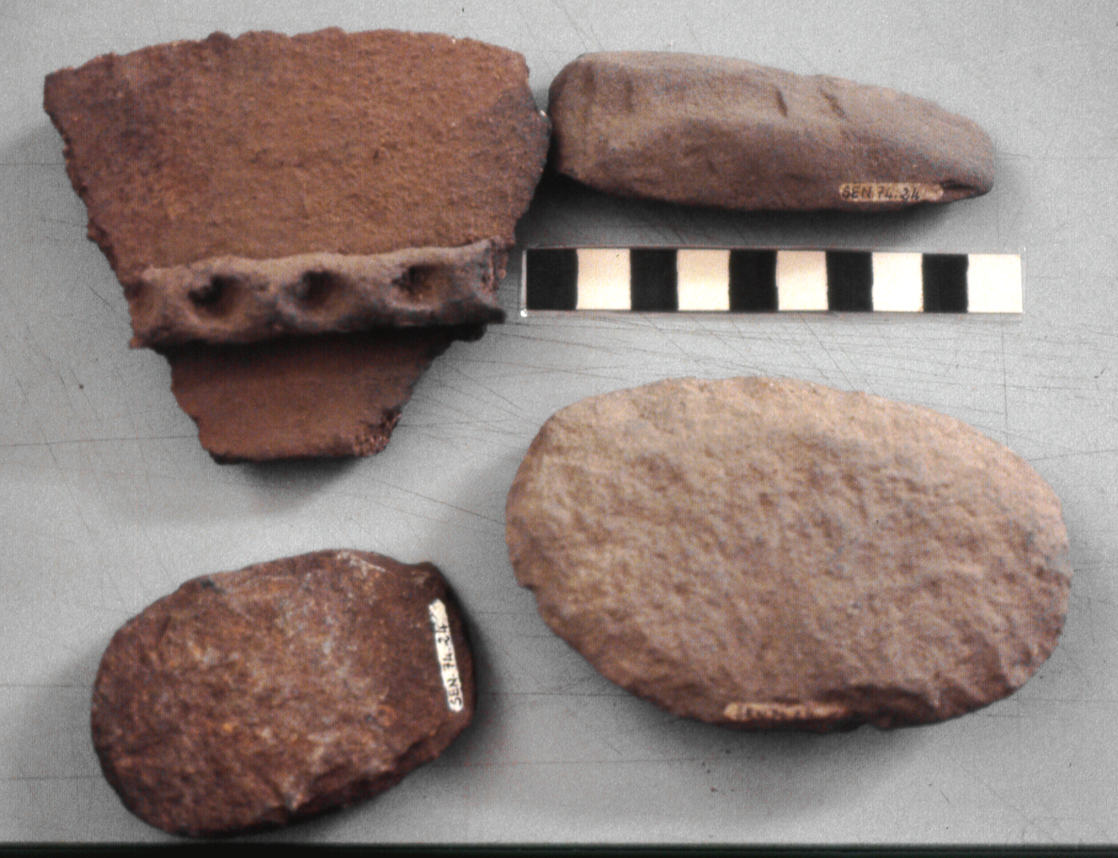 Prehistoric artefacts from Sénégal (west Africa) Scale in centimetres. Photo taken in the IFAN Museum, Dakar, Sénégal